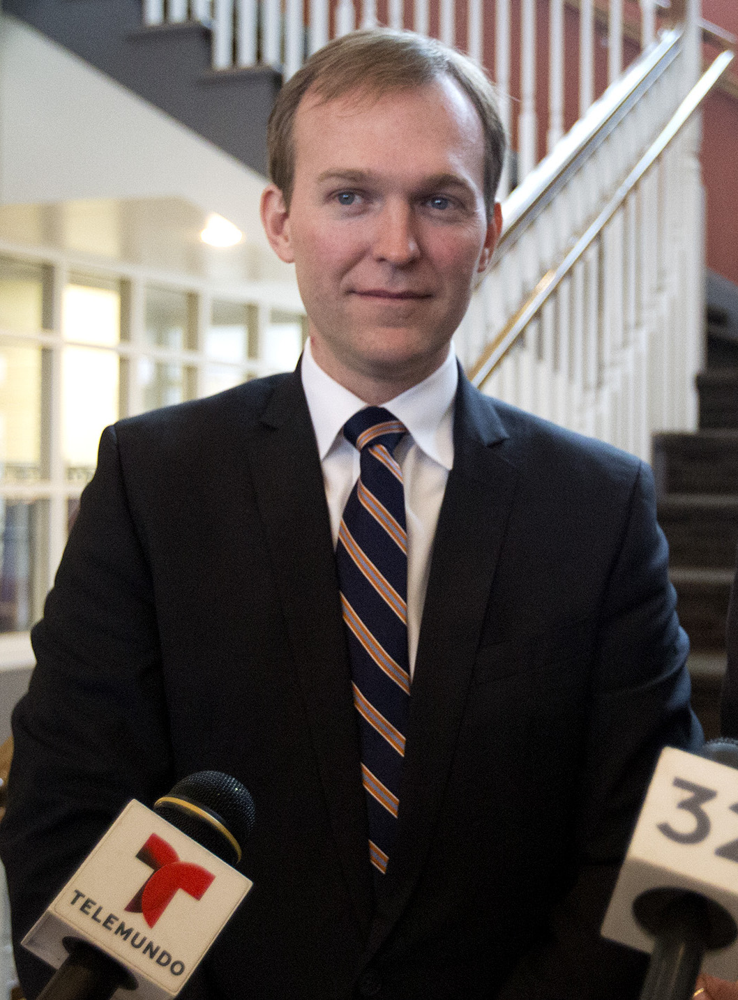 Salt Lake County Mayor Ben McAdams talks to the media while visiting Palmer Court, the Road Home's permanent supportive housing development, in Salt Lake City, Utah, on Friday, Jan. 30, 2015. ***Official Department of Labor Photograph*** This official Department of Labor photograph is, because it is a work of the US Federal Government, in the public domain from a copyright perspective, so while restrictions such as personality or privacy rights may apply, in general, manipulations are allowed that don't in any way suggest approval or endorsement Secretary, or the Department of Labor. Photo Credit: U.S. Department of Labor